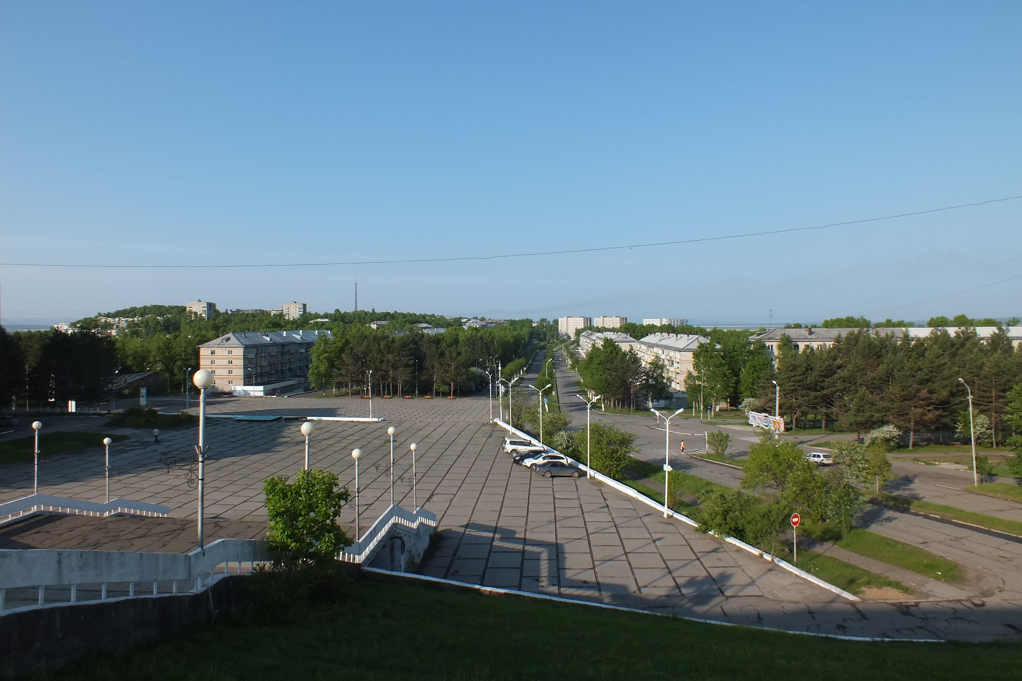 Amursk